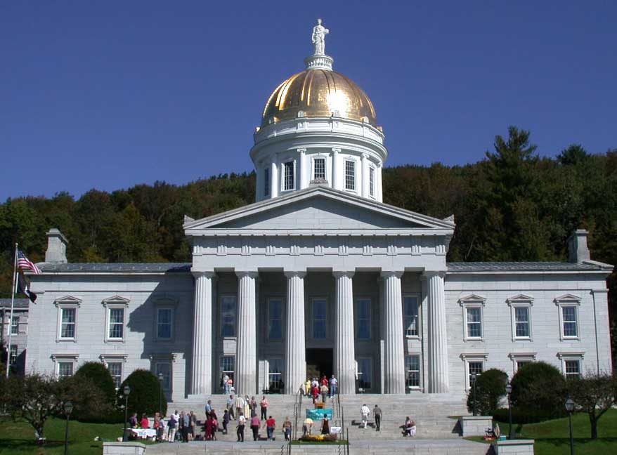 Front view of the Vermont State House (taken Sept. 23, 2004) © 2004 Matthew Trump